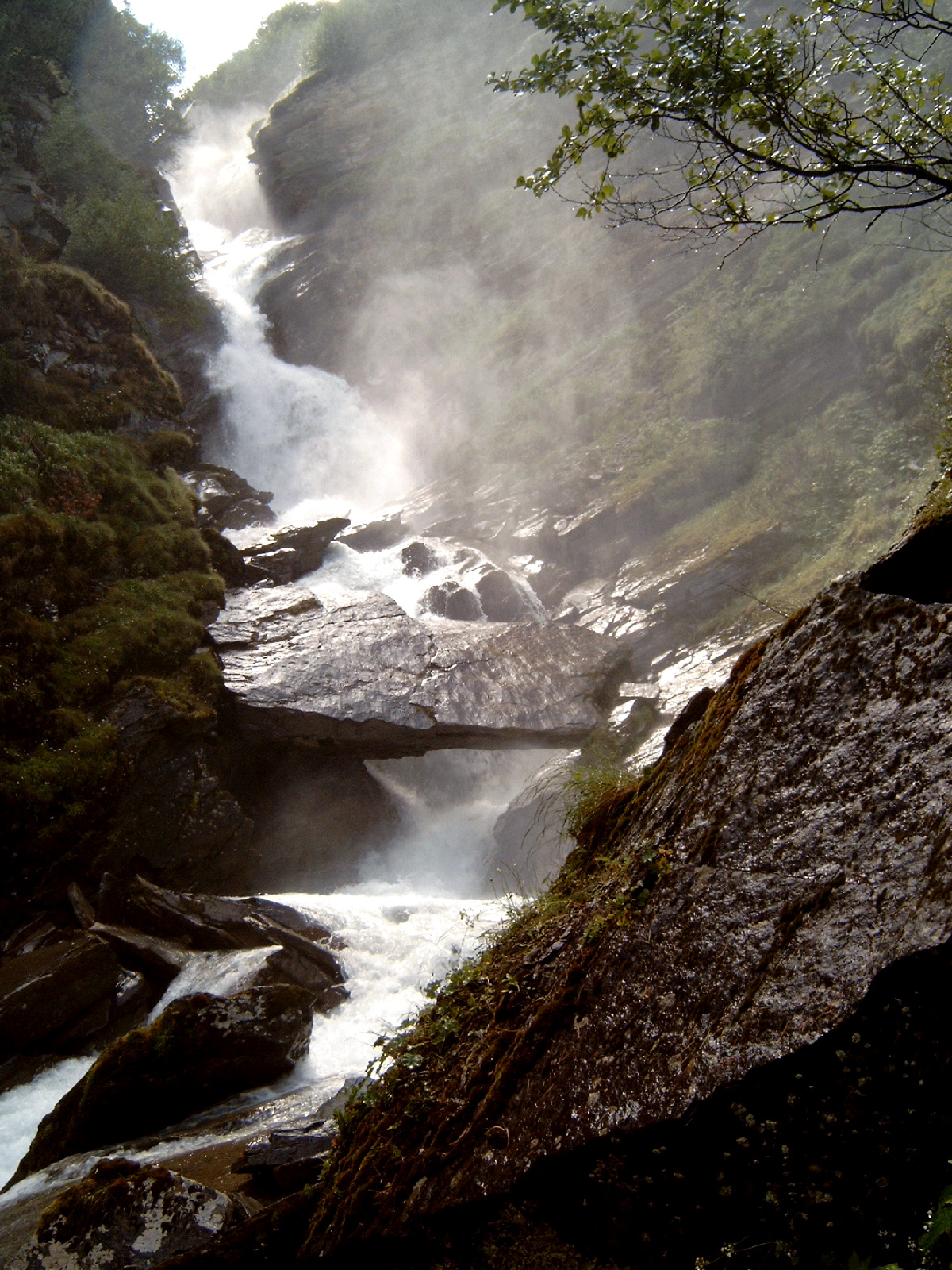 A waterfall in Ova da Fedoz (Switzerland).